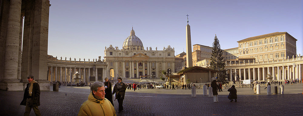 Saint Peter's Square, Vatican City, with the Apostolic Palace at the right.